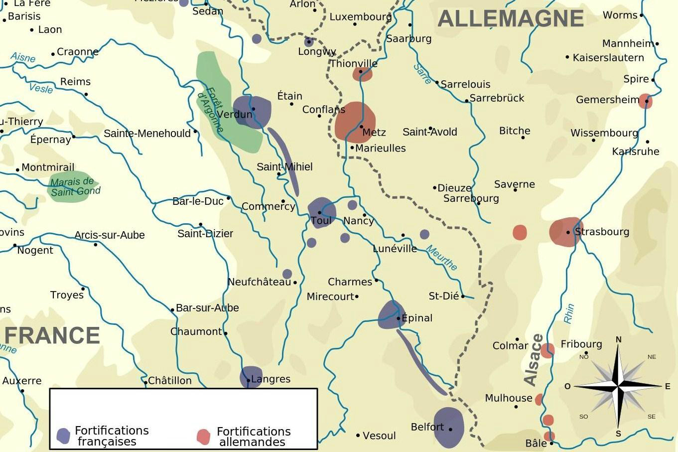 The border between France and Germany, French (blue) and German (brown) fortifications, 1914.